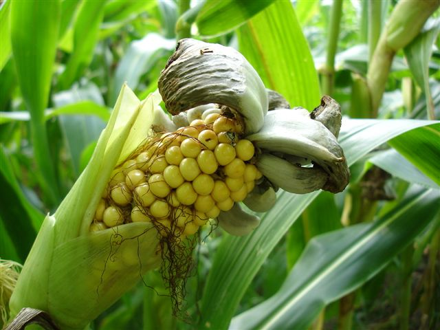 the maize disease corn smut. Picture taken on a maize field in Germany